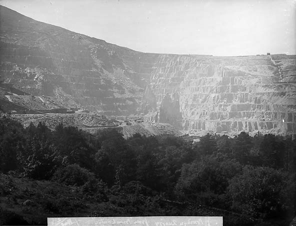 1 negative : glass, dry plate, b&w ; 16.5 x 21.5 cm.